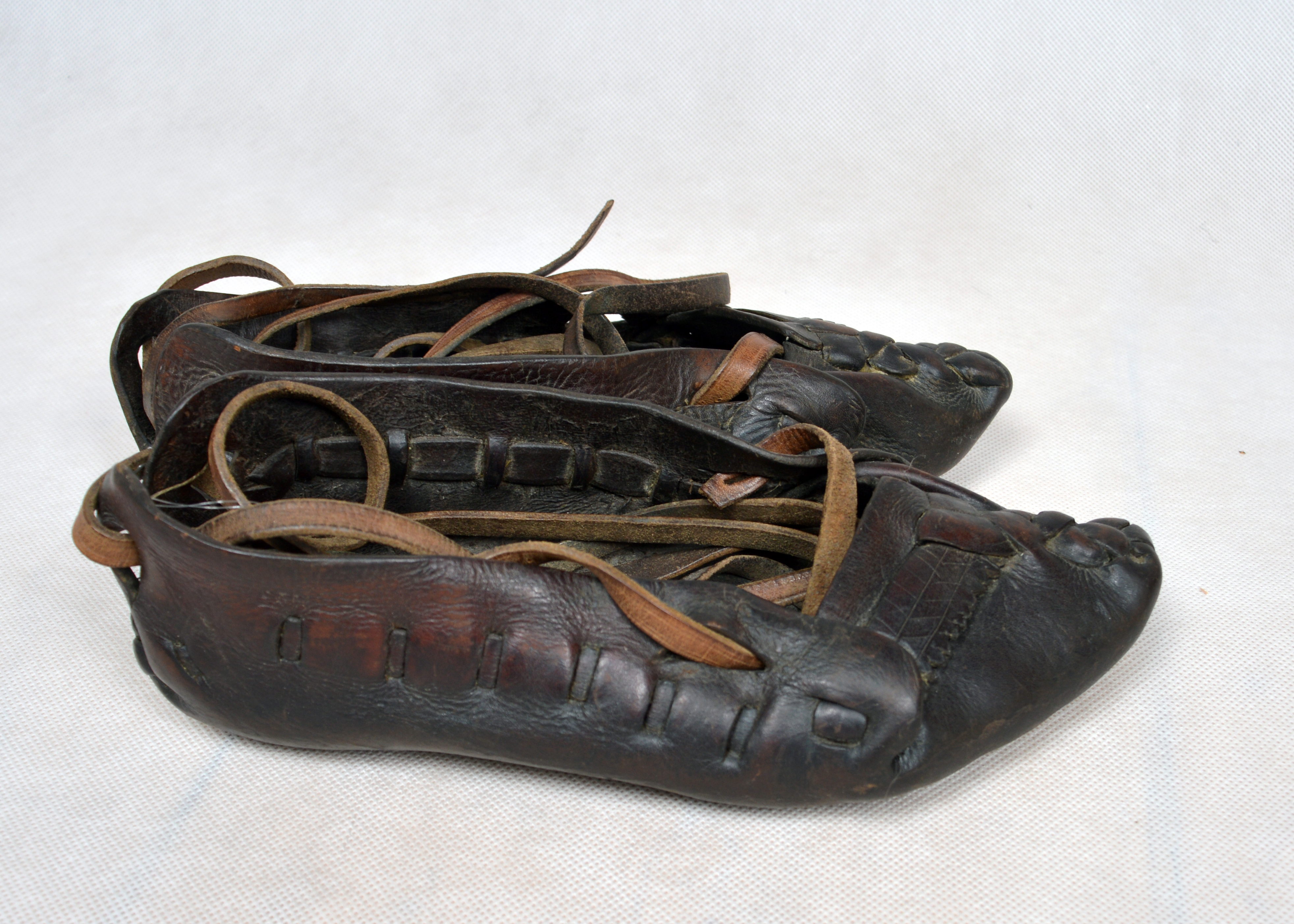 Woman Kierpce - traditional shoes from Podhale region in Poland. First half of XIX century. The property of Muzeum Tatrzańskie in Zakopane, Poland, inv. no. E/2073/MT. Purchased from M.Gerson in 1903.